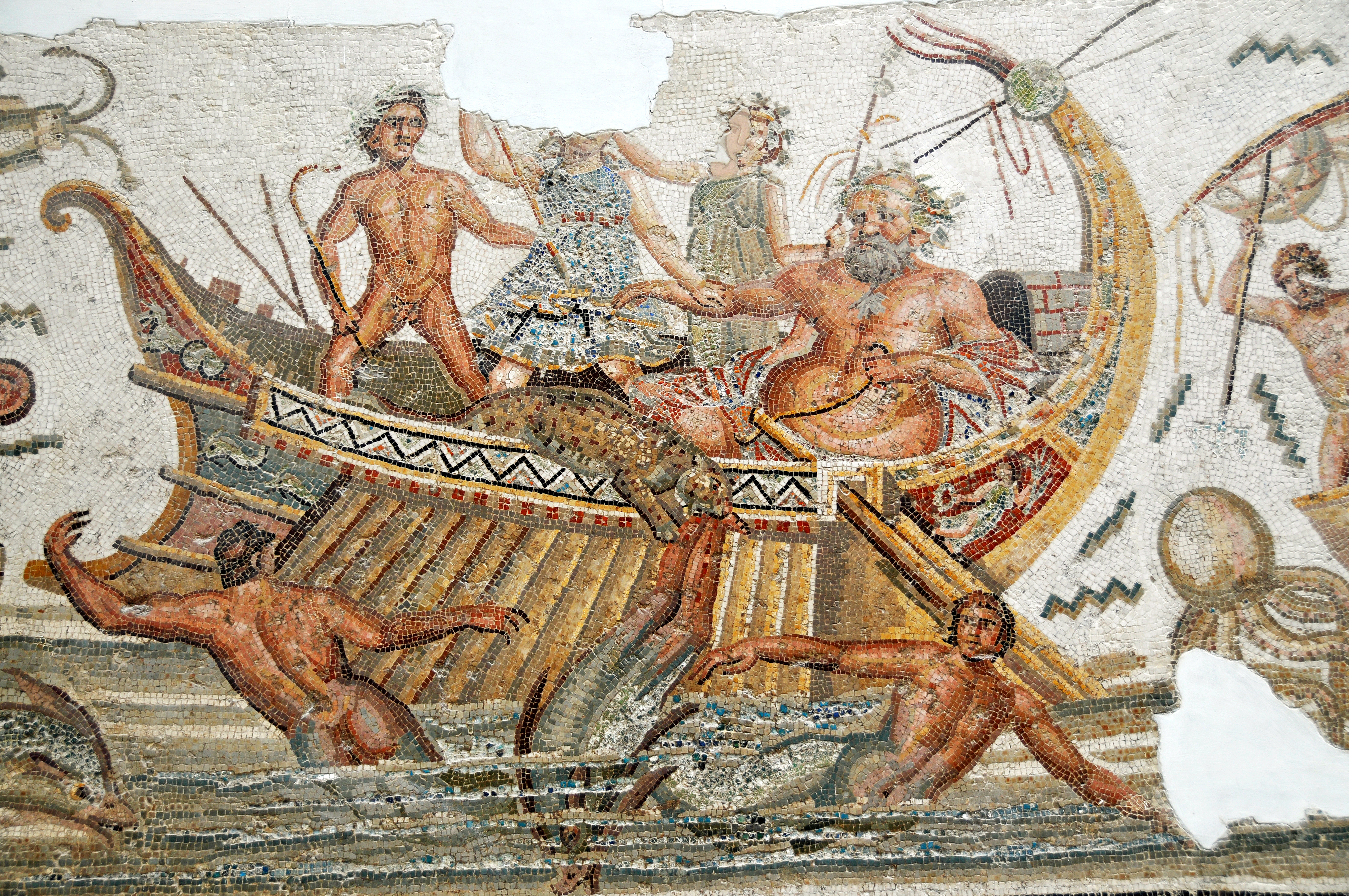 North African Roman mosaic Bardo National Museum, Tunisia. Panther-Dionysus scatters the pirates, who are changed to dolphins. See also Panther-Dionysus